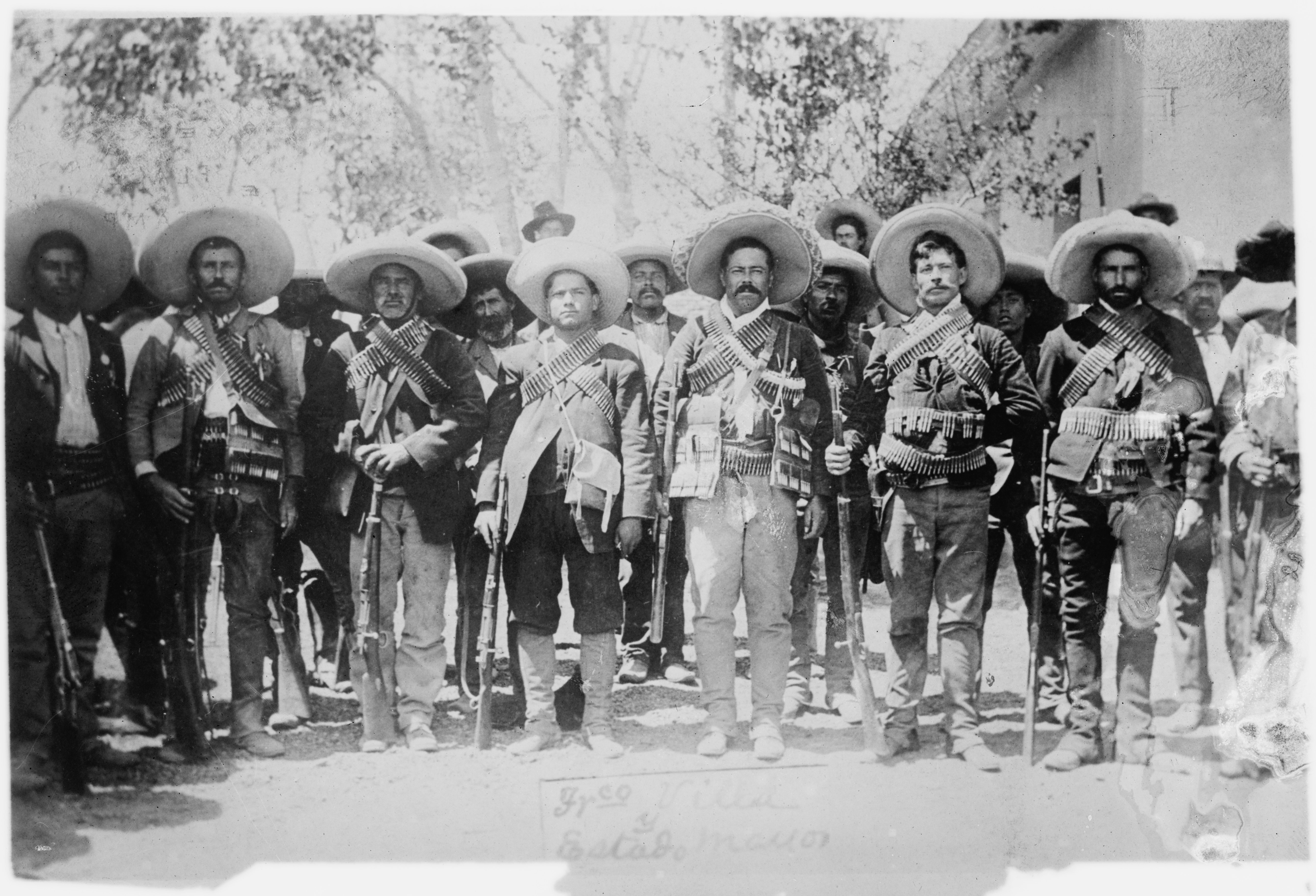 Villa and staff, MexicoBain News Service, publisher1 negative : glass ; 5 x 7 in. or smaller. Notes: Title from unverified data provided by the Bain News Service on the negatives or caption cards. Subjects: Mexico Format: Glass negatives. Call Number: LC-B2- 2377-5